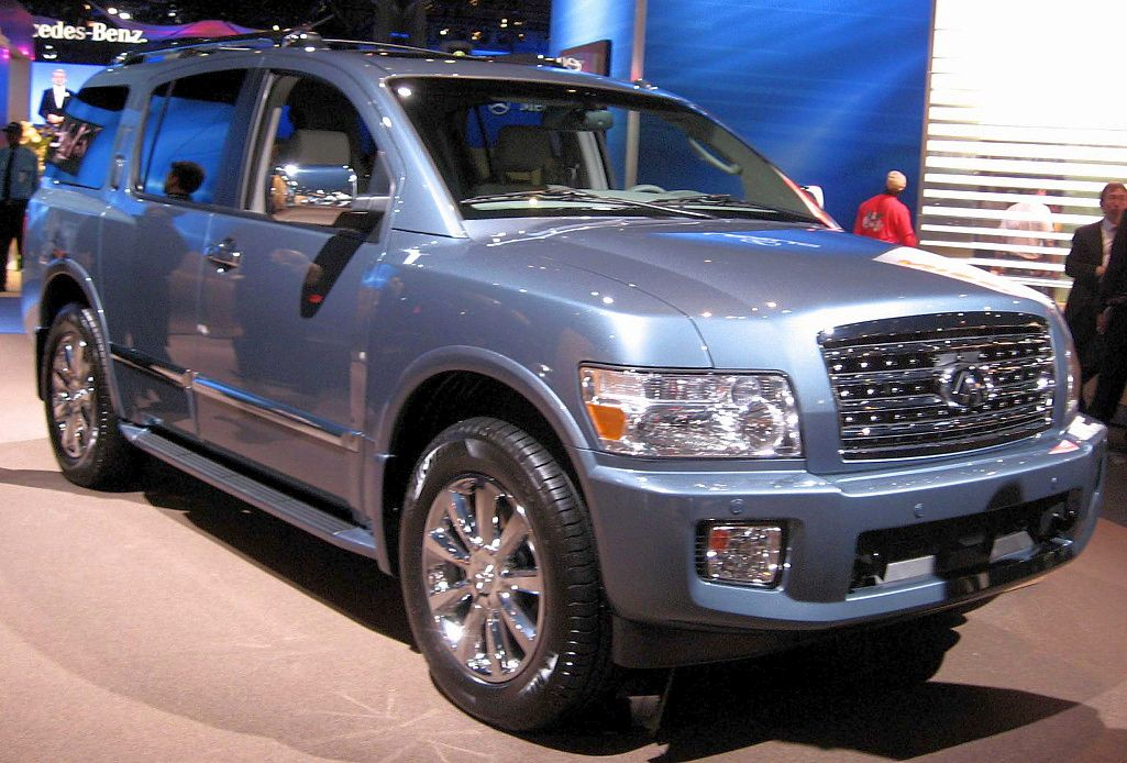 2008 Infiniti QX56 photographed at the 2008 New York Auto Show.